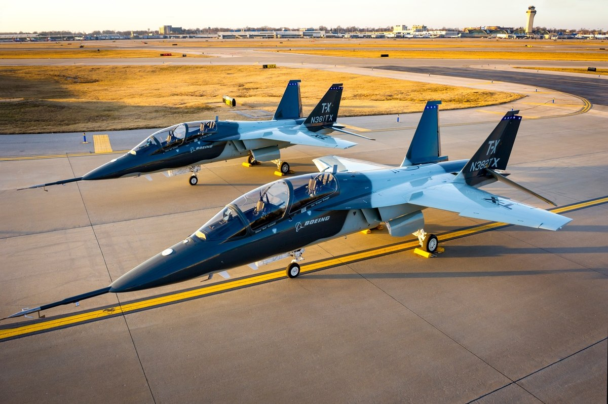 Two Boeing T-X trainers parked on a taxiway.